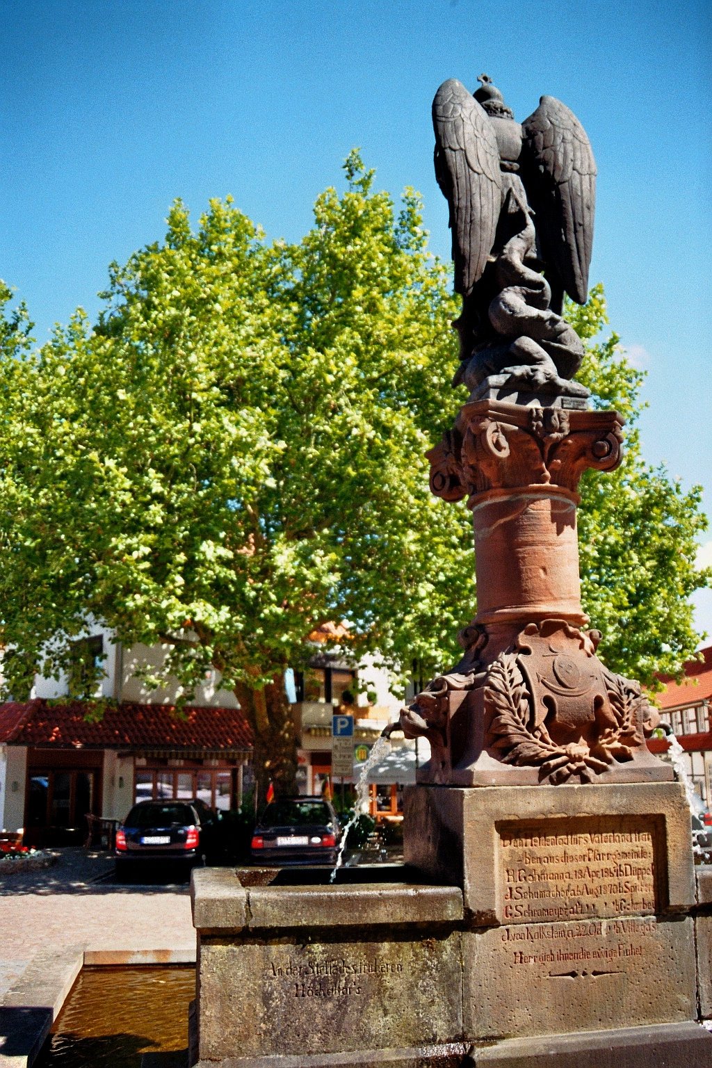 Market square of Mettingen, Kreis Steinfurt, North Rhine-Westphalia, Germany, dominated by the big plane tree (Platanus) and the Archangel Michael Memorial.